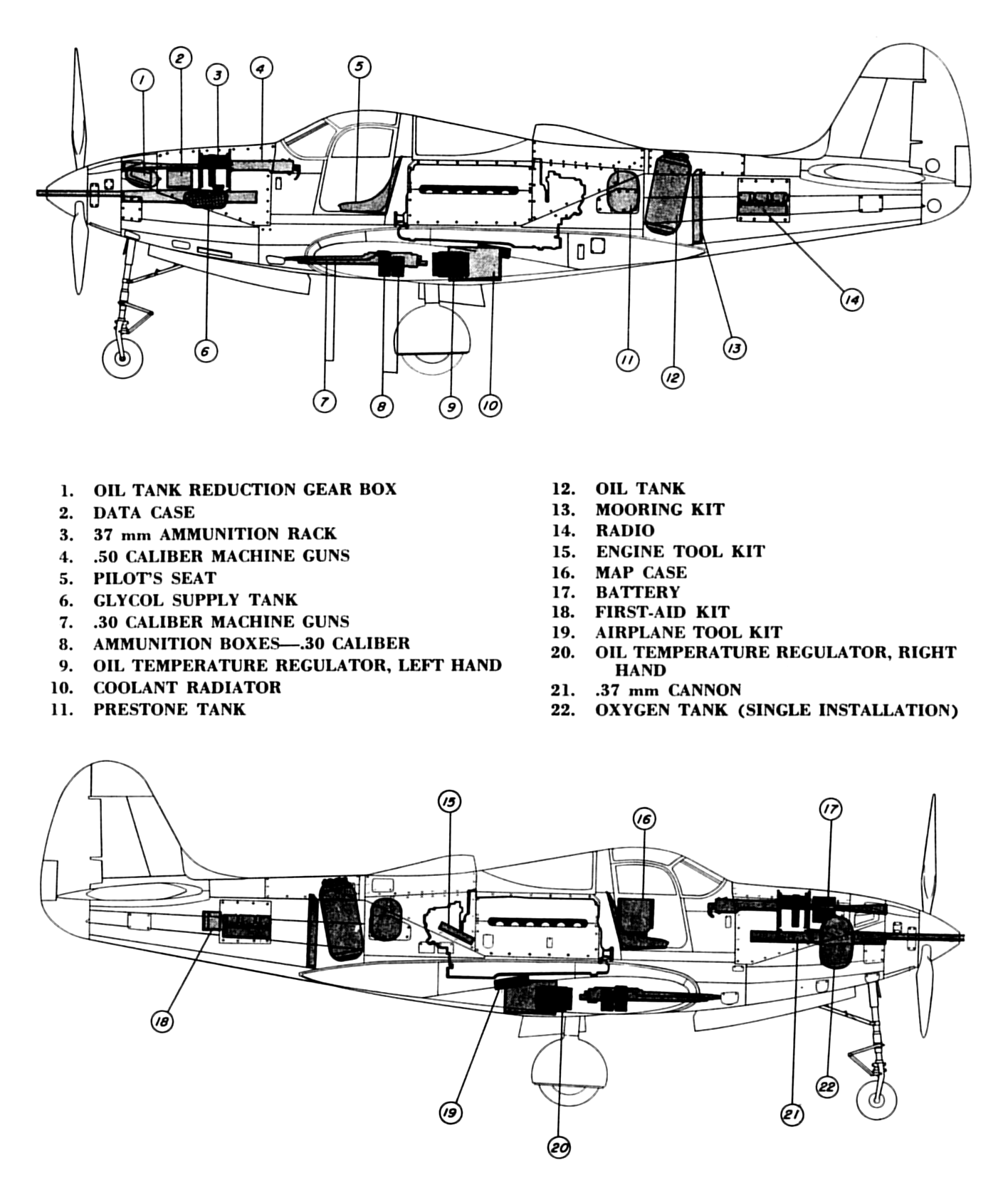 P-39K-1 and P-39L-1: General arrangement, right and left sides